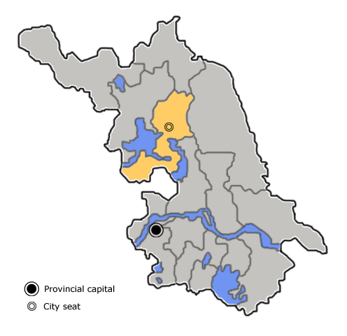 The prefecture-level city of Huai'an is highlighted on this map of Jiangsu province, People's Republic of China.